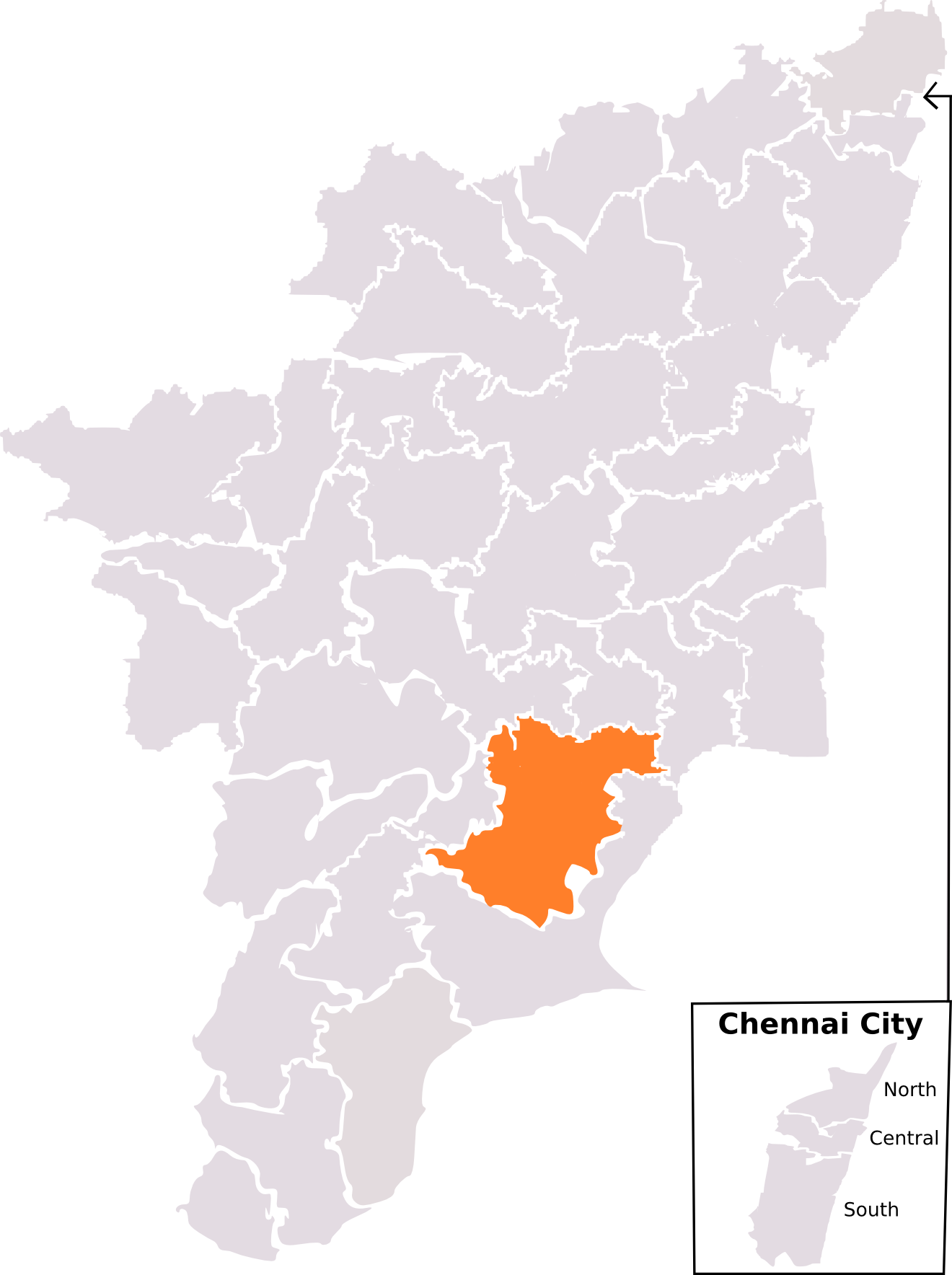 Lok Sabha Election map for Tamil Nadu. Map is based on ECI drawn map. Results are based on ECI website.